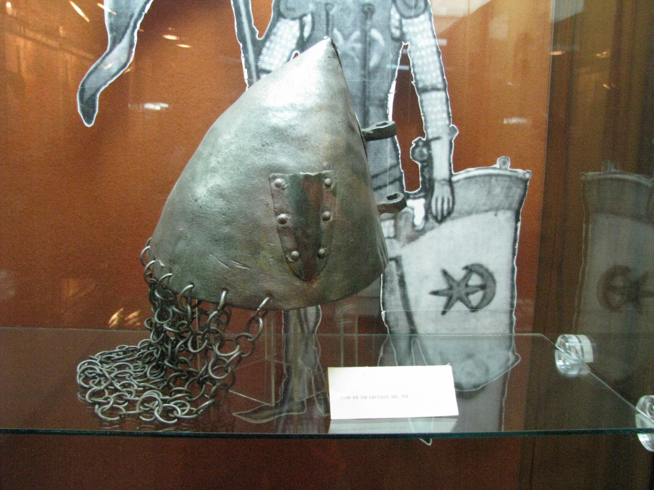 Alba Iulia National Museum of the Union 2011